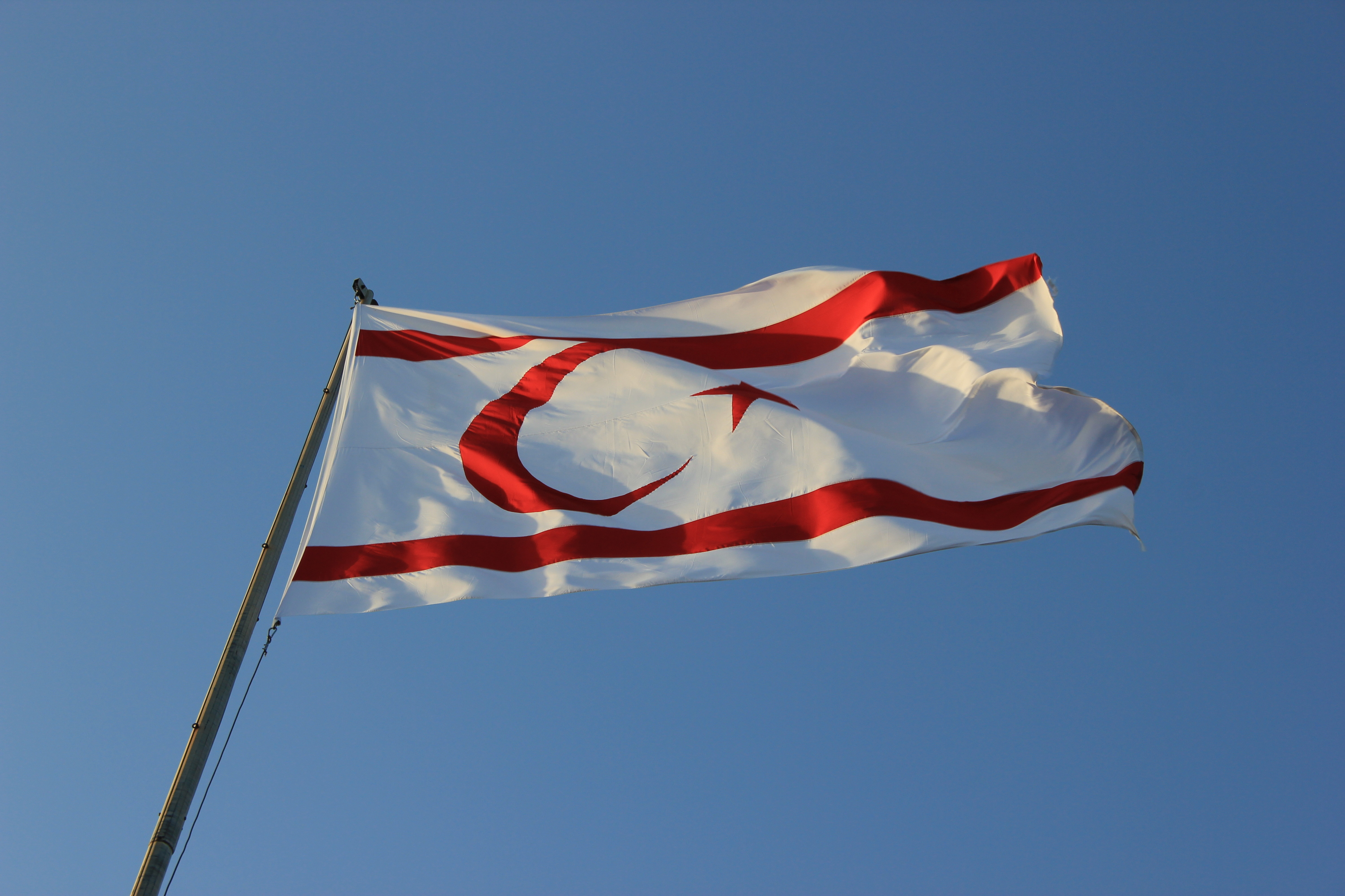 At Cape Apostolos Andreas on Cyprus.